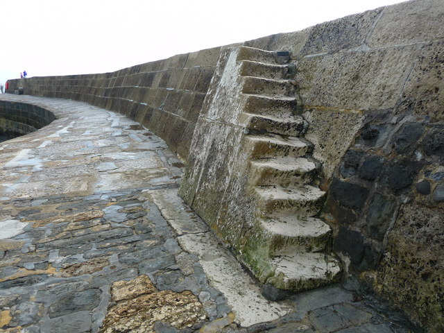 Cobb - Steps Onto The Cobb These steps lead to the walkway on top of the Cobb.